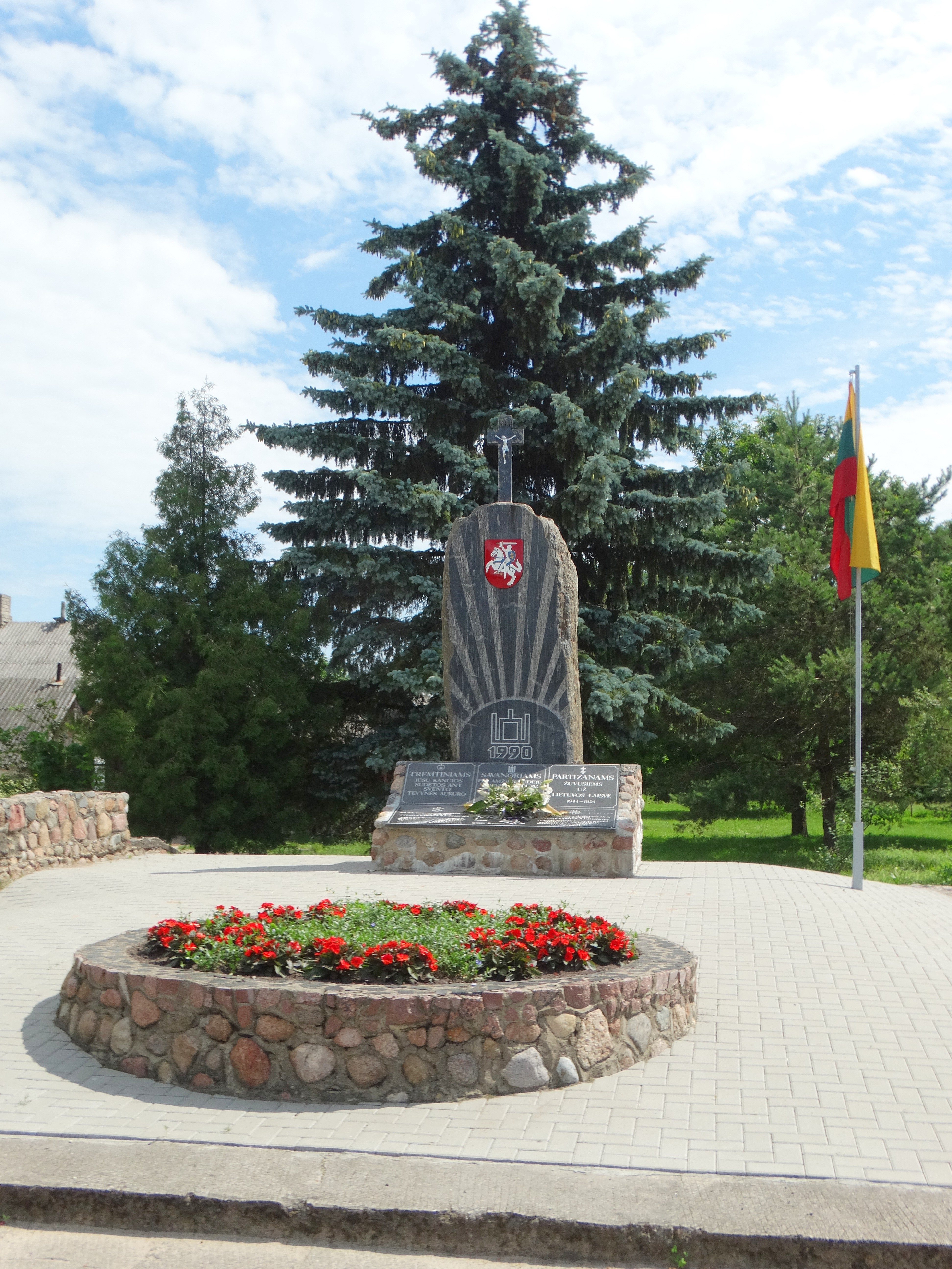 Pagiriai, memorial, Kėdainiai district, Lithuania